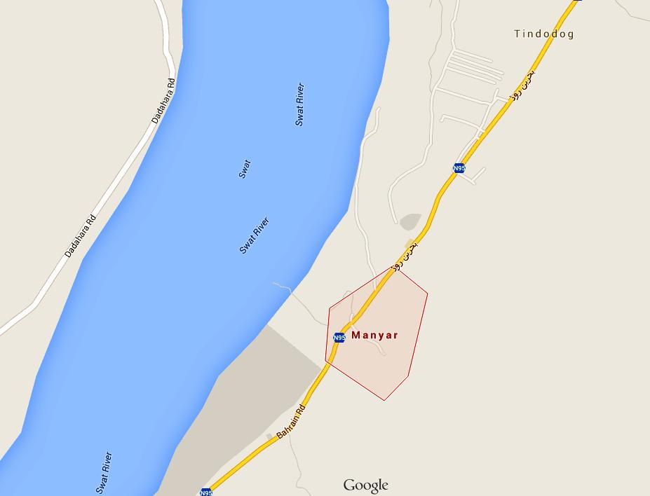 Map of Manyar swat